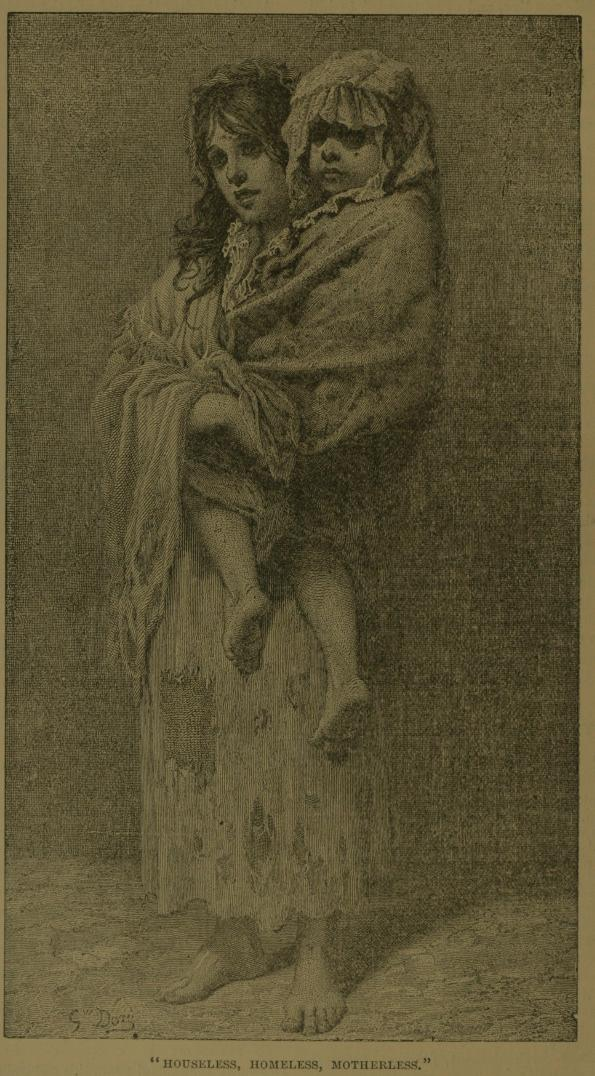 Book illustration